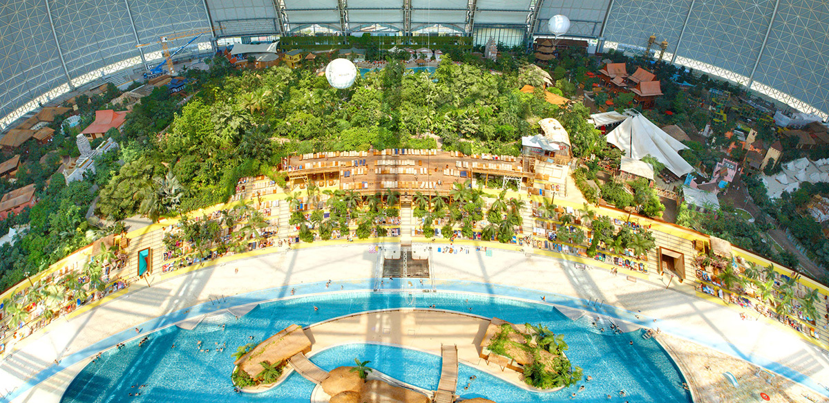 Overview Tropical Islands